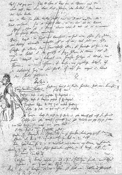 a draft of Georg Büchners Woyzeck - street scene